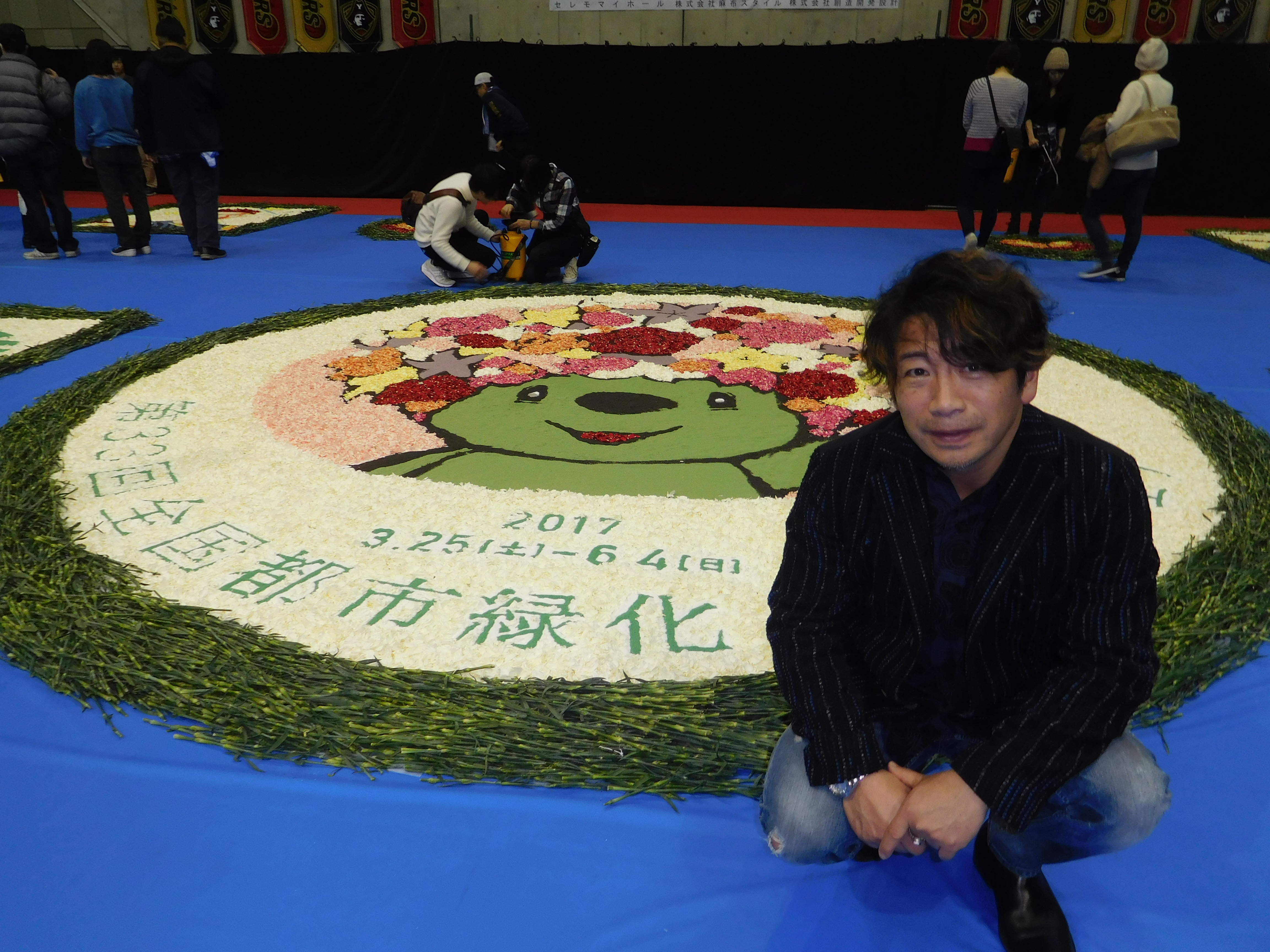 Japanese Art director Yasuhiko Fujikawa at 20170204